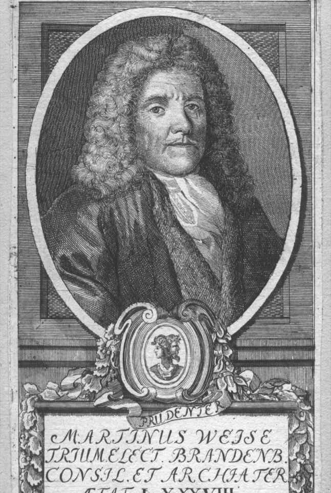 Martin Weise (1605-1693) German physician